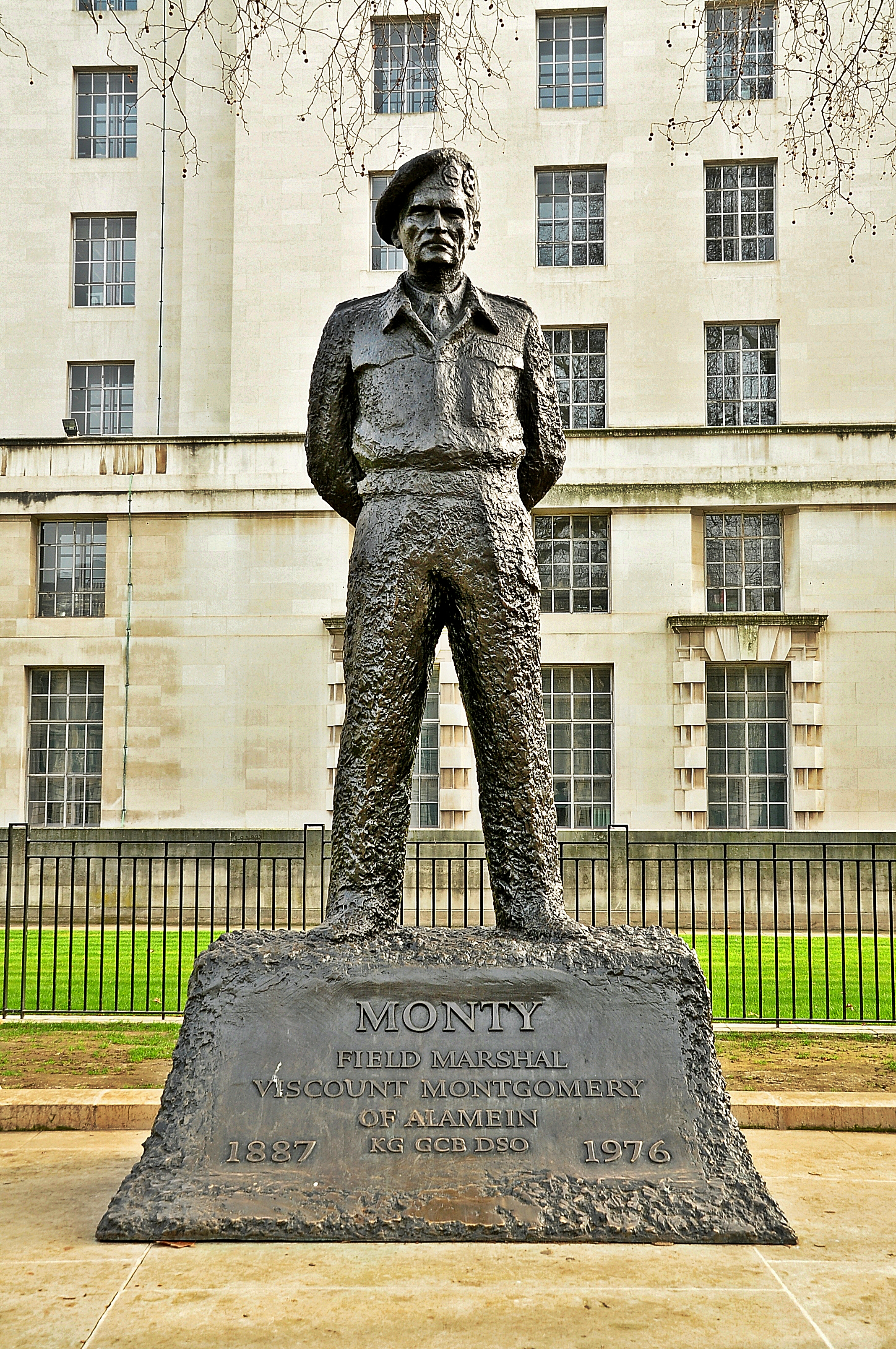 Statue of Bernard Montgomery, 1st Viscount Montgomery of Alamein located in Whitehall, London. Sculptor was Oscar Nemon. 1980.